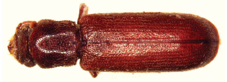 Lyctus africanus, dorsal view.